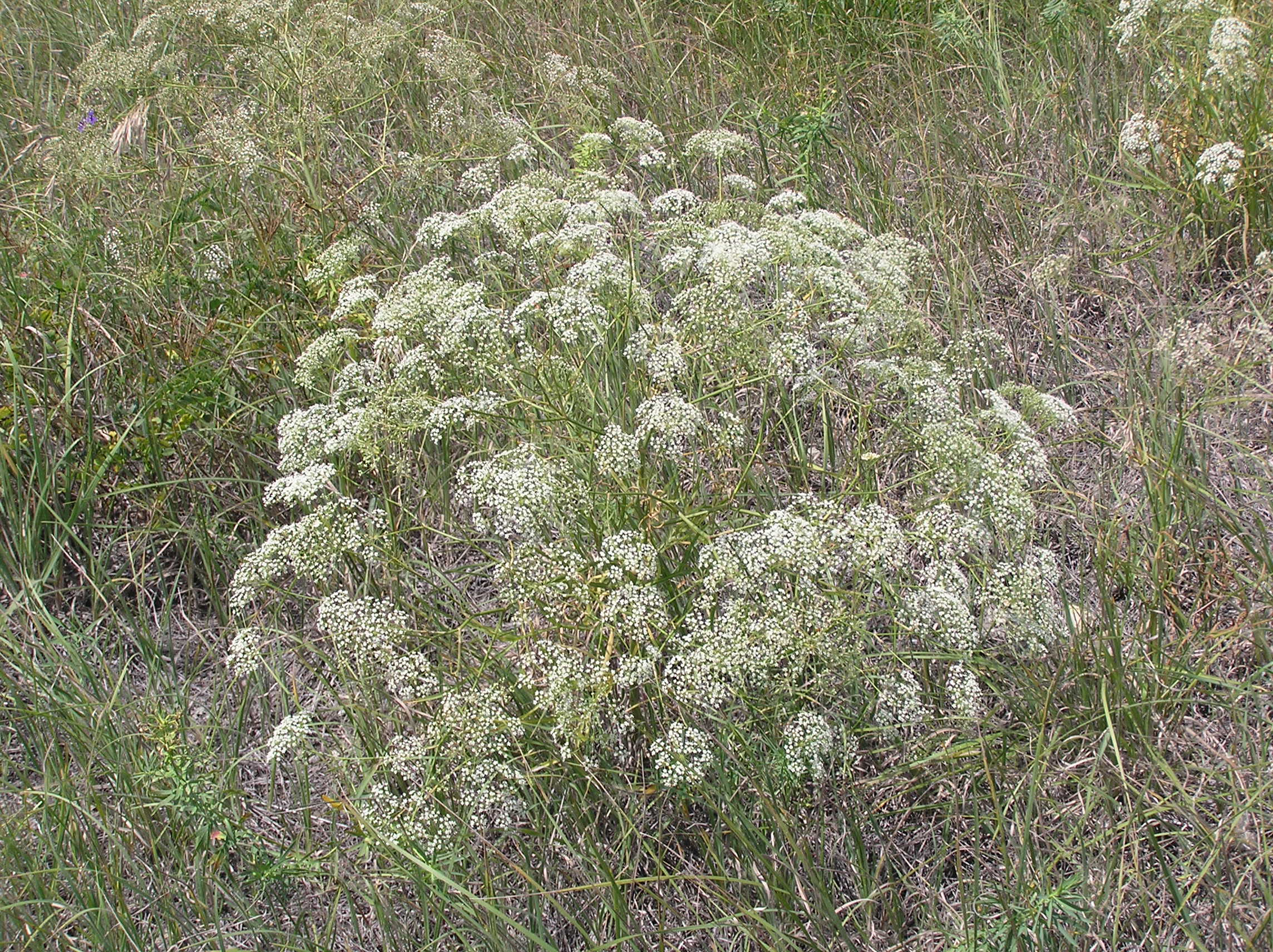 Falcaria vulgaris Bernh. Habitat: dry meadow. Vicinity of Saratov city, Russia.